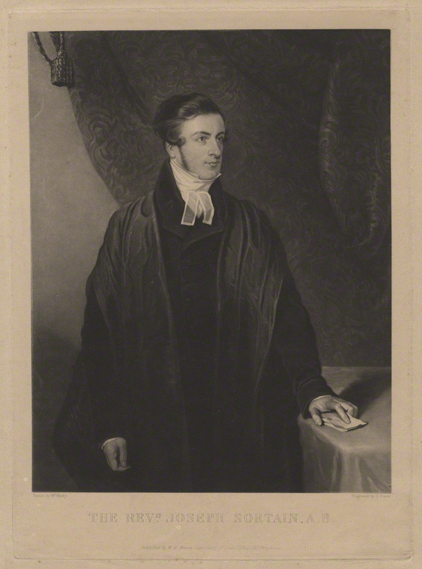 Portrait of Joseph Sortain (1809-1860), English nonconformist minister.